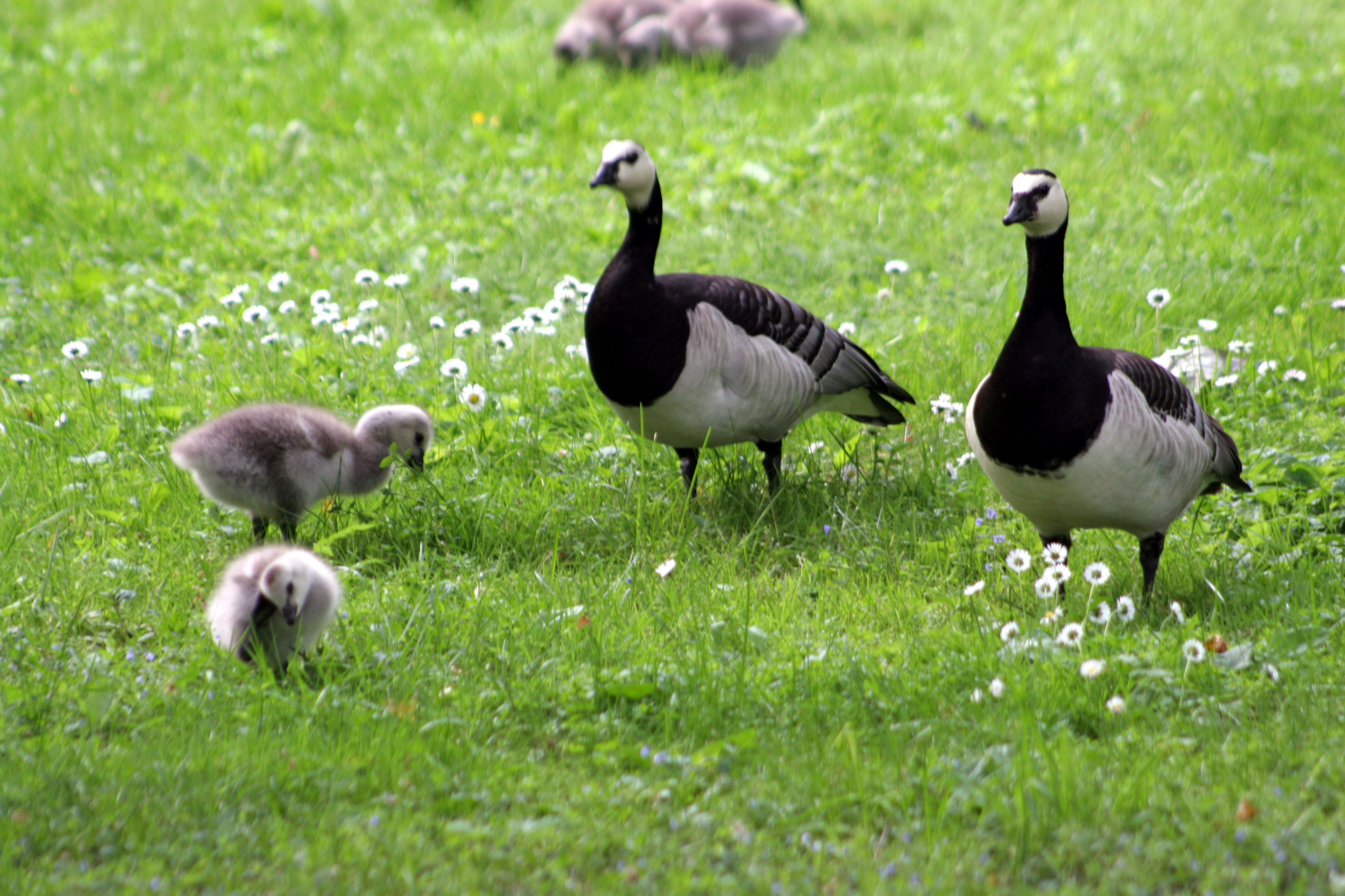 Barnacle geese (Branta leucopsis) with goslings in Stockholm, Sweden.